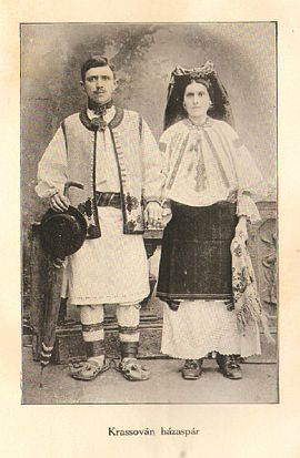 Krashovan wedded couple in folk costume